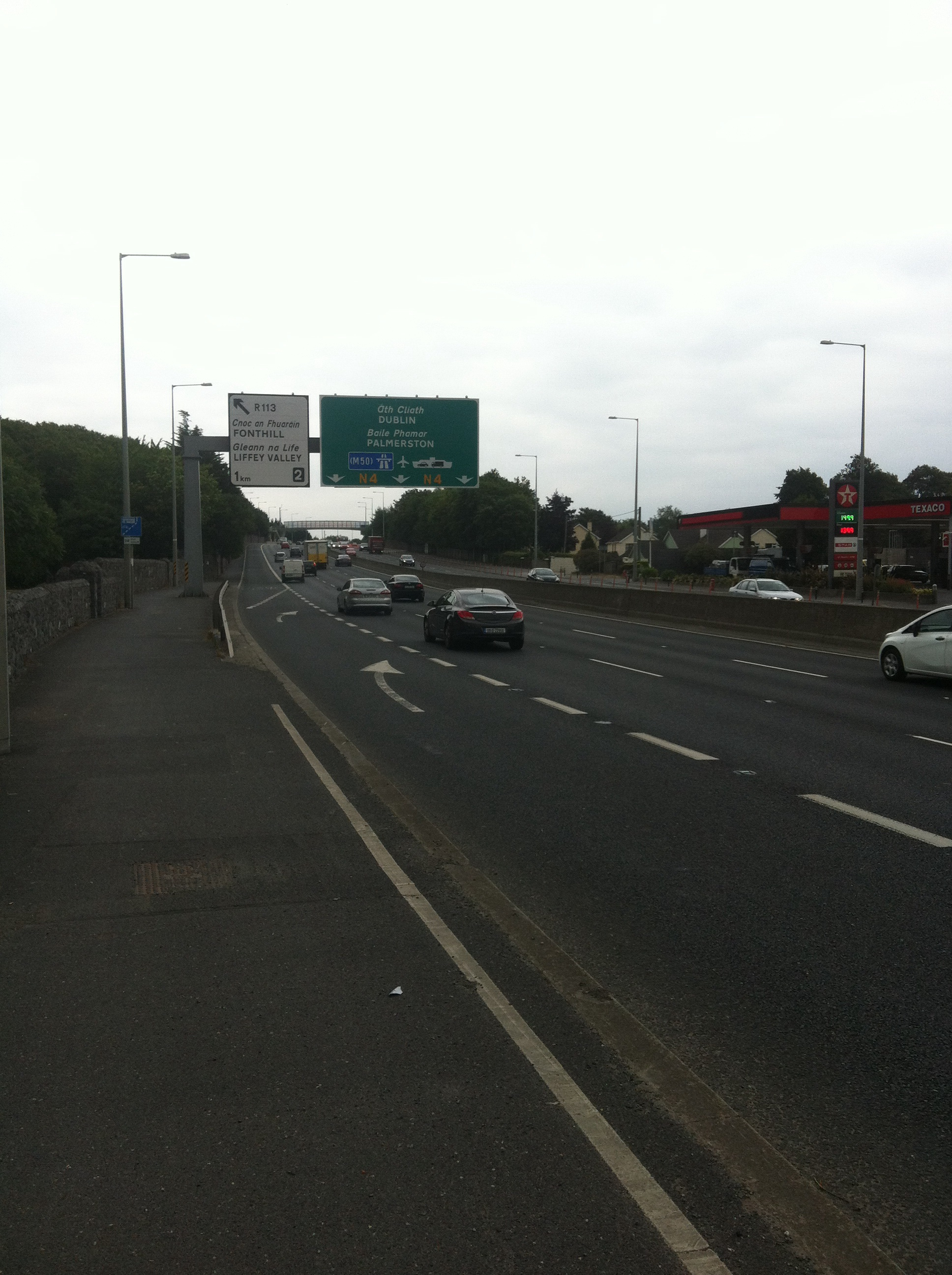 This is a picture of the N4 road in Lucan, Co. Dublin